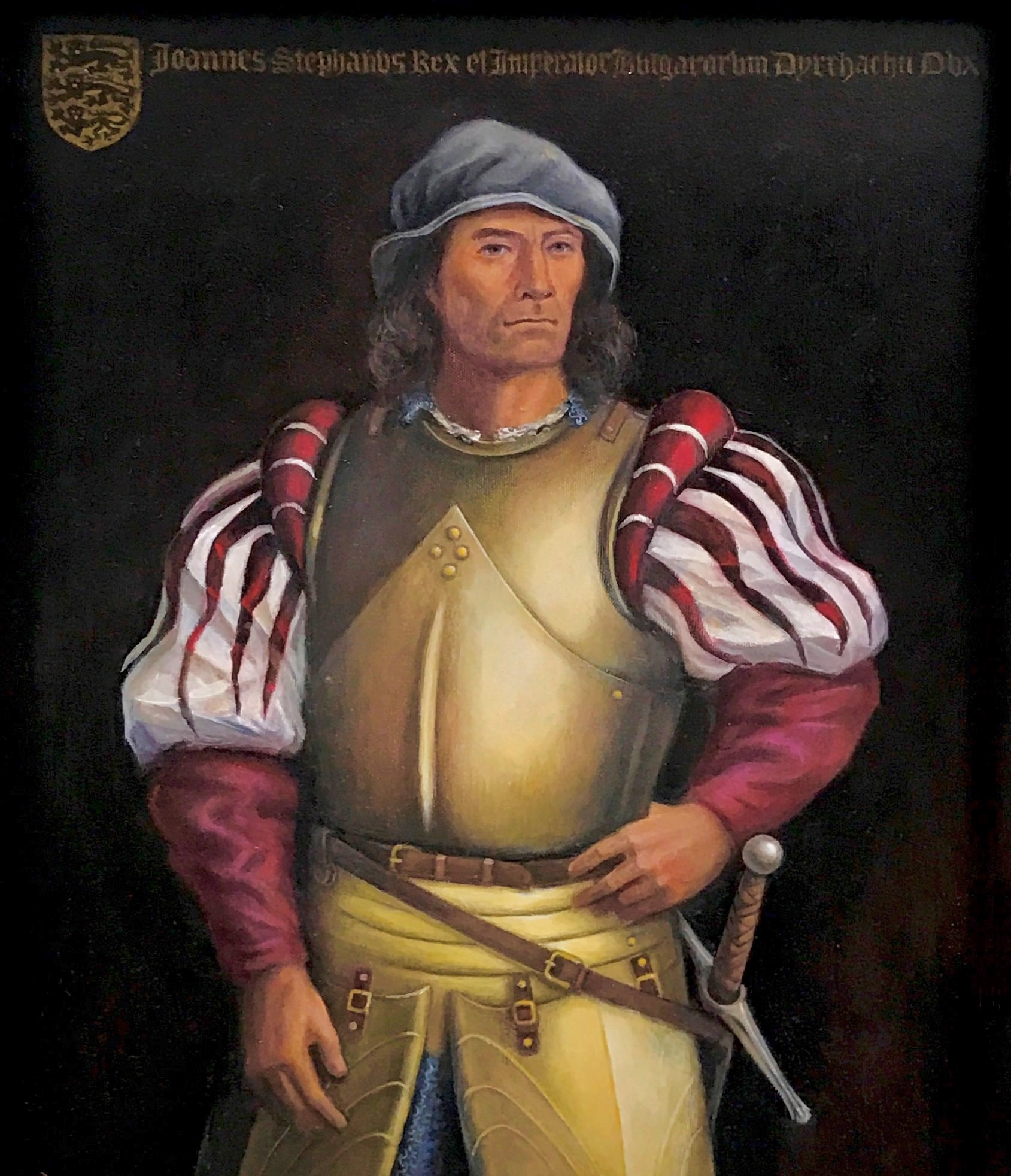 John Stephen, King of Bulgaria and Duke of Durazzo, painting by anonymous author, late 19th century, Sofia Art Gallery.